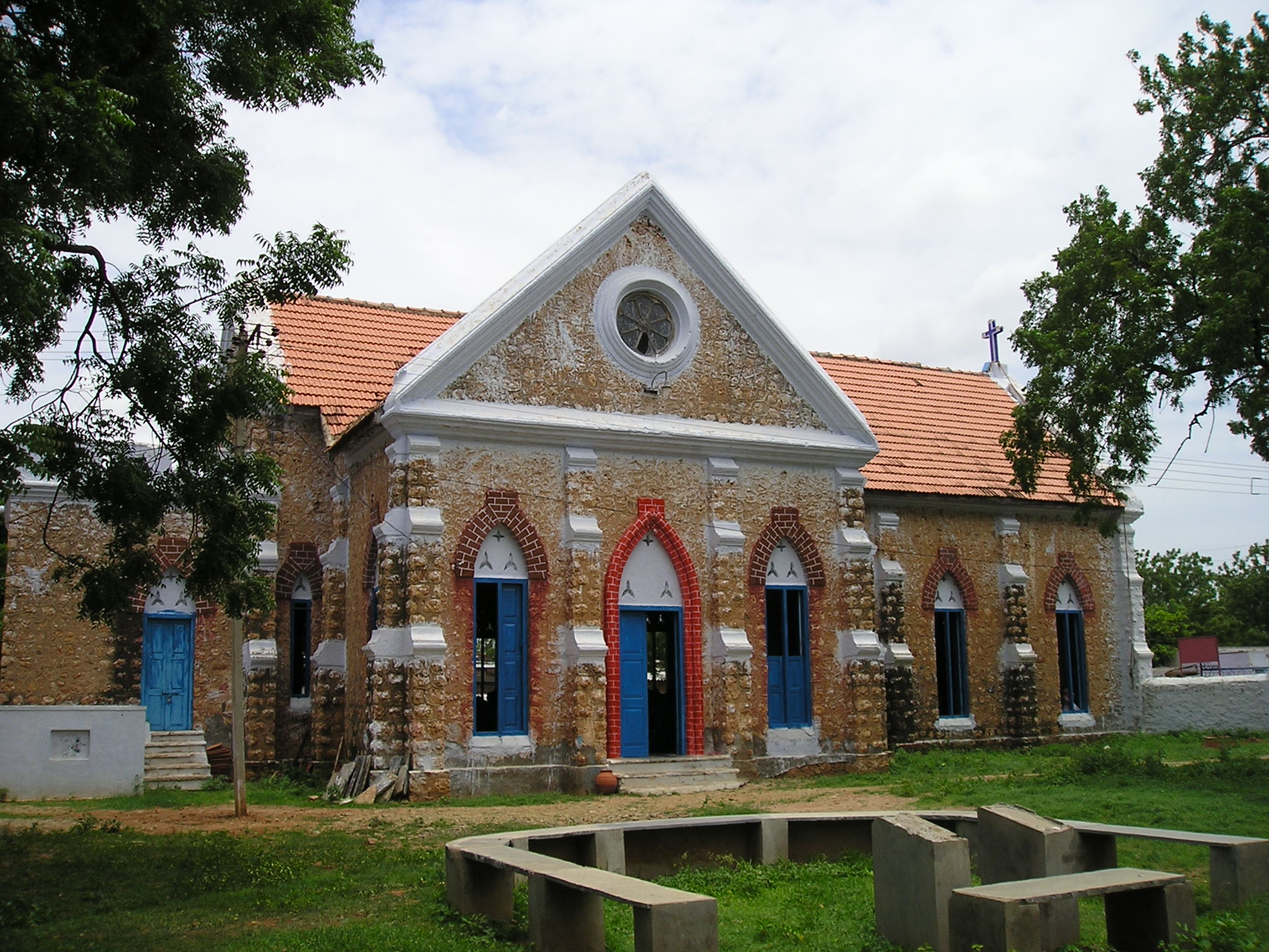 The ABM Baptist church in Donakonda in AndhraPradesh , India built in 19th Century